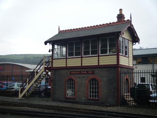 The signal box at Douglas Station.